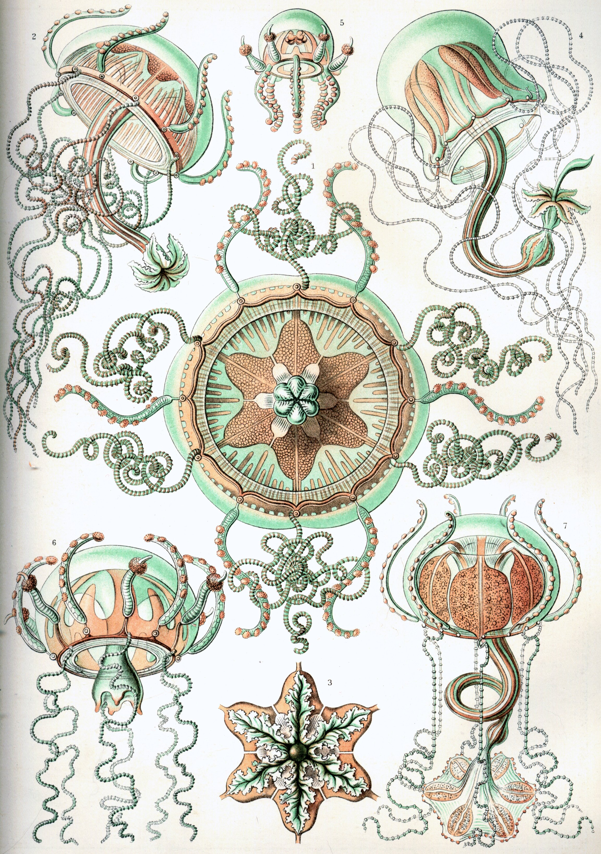 (center): Carmaris Giltschi (Haeckel) = Geryonia proboscidalis (Huxley, 1859)?, adult medusa, underside view (top left): Carmaris Giltschi (Haeckel) = Geryonia proboscidalis (Huxley, 1859)?, adult medusa, side view (bottom center): Carmaris Giltschi (Haeckel) = Geryonia proboscidalis (Huxley, 1859)?, gonads and mouth, underside view (top right): Carmarina hastata (Haeckel) = Geryonia proboscidalis (Huxley, 1859), adult medusa, side view (top center): Carmarina hastata (Haeckel) = Geryonia proboscidalis (Huxley, 1859), young medusa, side view (bottom left): Carmarina hastata (Haeckel) = Geryonia proboscidalis (Huxley, 1859), half-grown medusa, side view (bottom right): Geryones elephas (Haeckel) = Geryonia proboscidalis (Huxley, 1859)?, adult medusa, side view